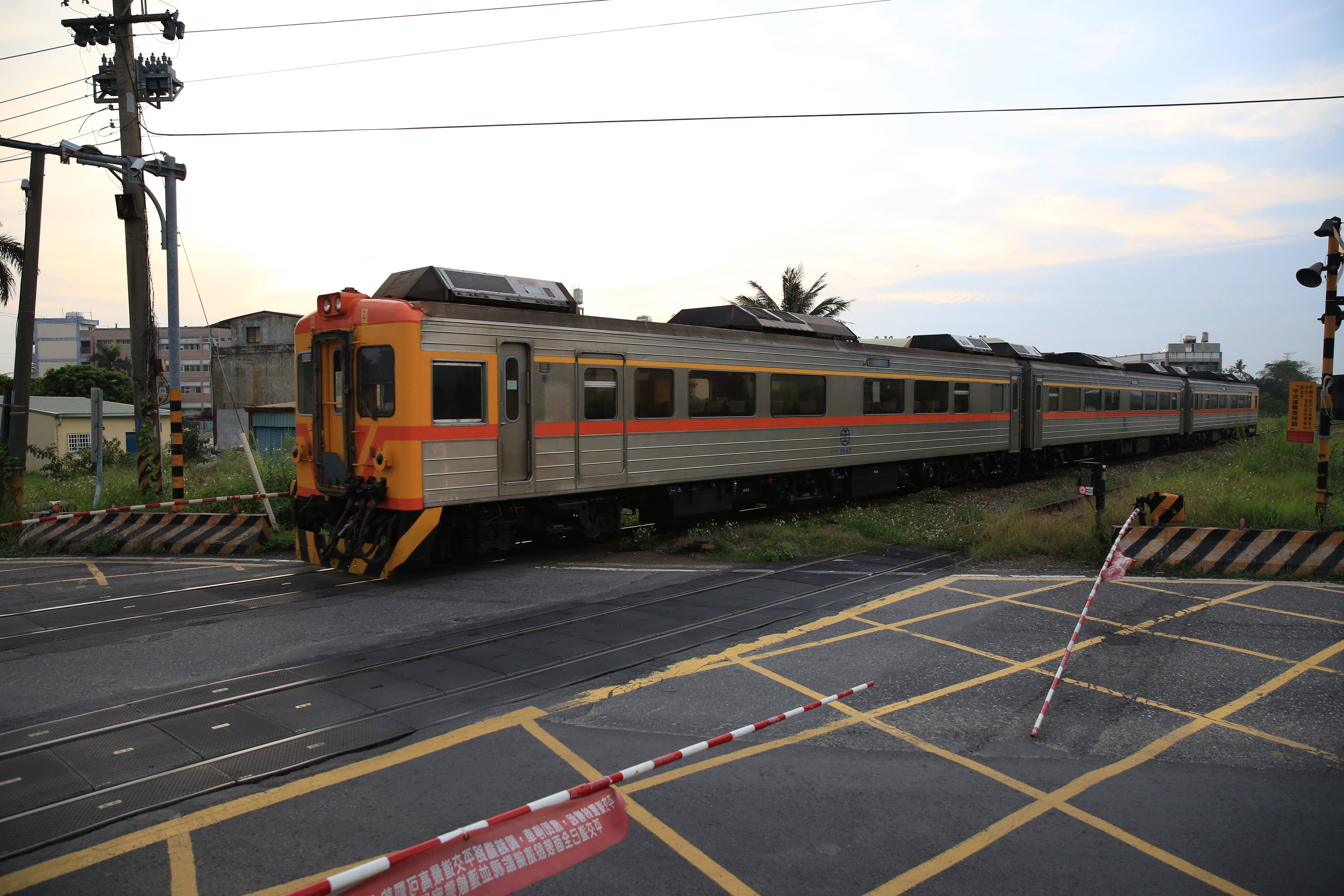 DMU type local train in TRA Pingtung Line.